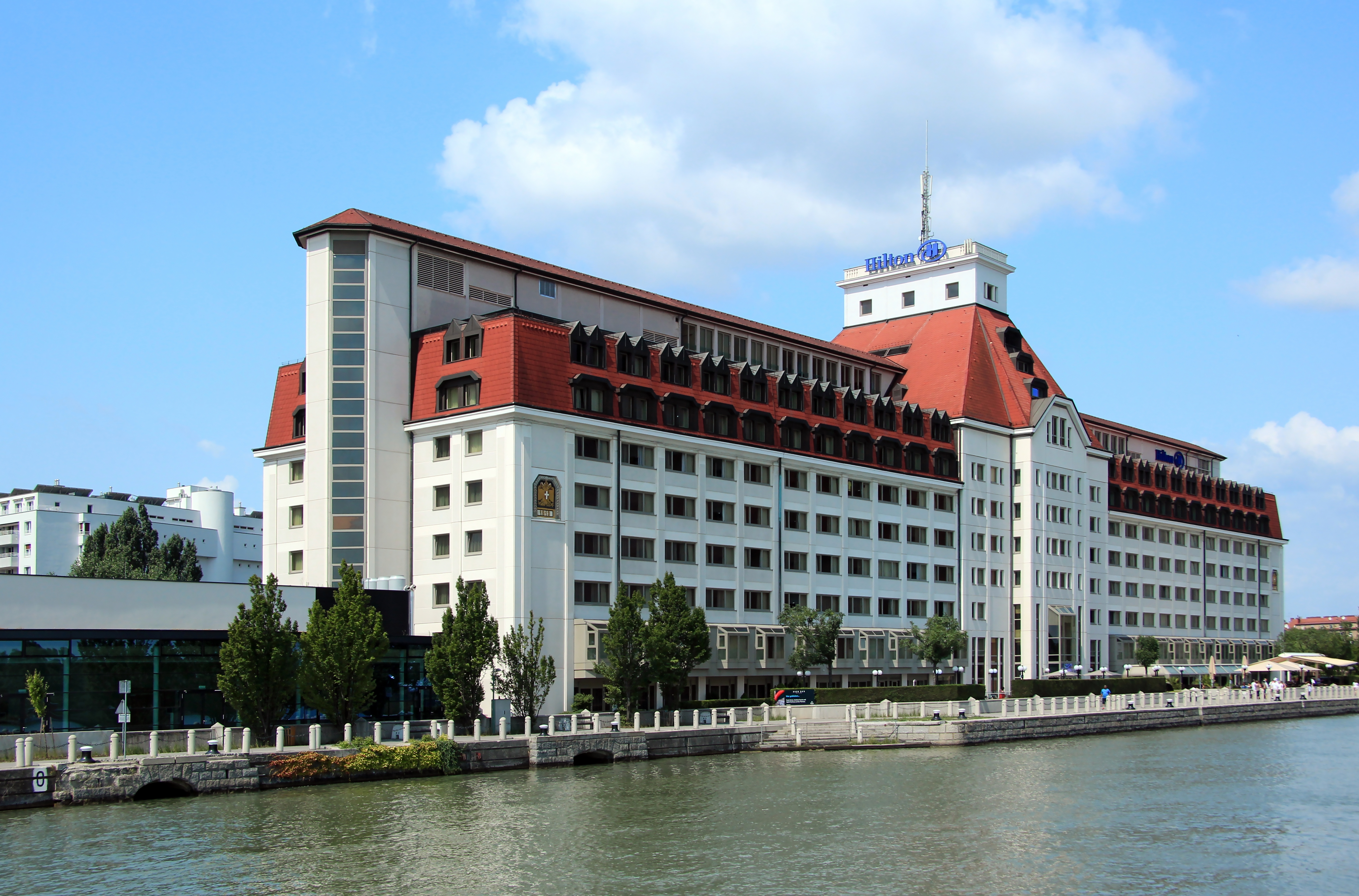 Danube in Vienna; Hilton Vienna Danube Hotel (former New municipal Warehouse, inaugurated October 6, 1913)